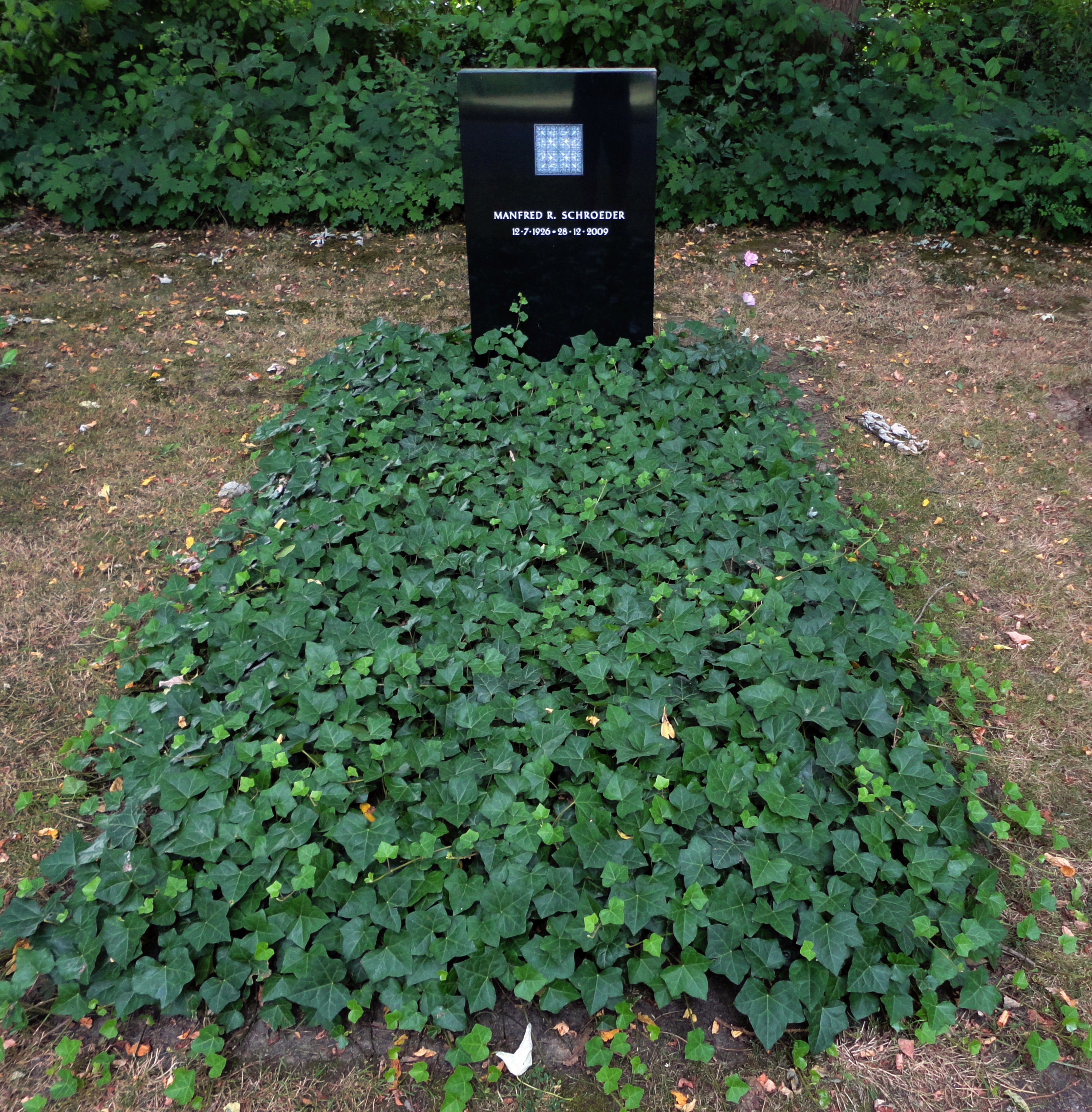 Parkfriedhof Junkerberg, grave (dedicated by the City of Göttingen) of Manfred Schroeder